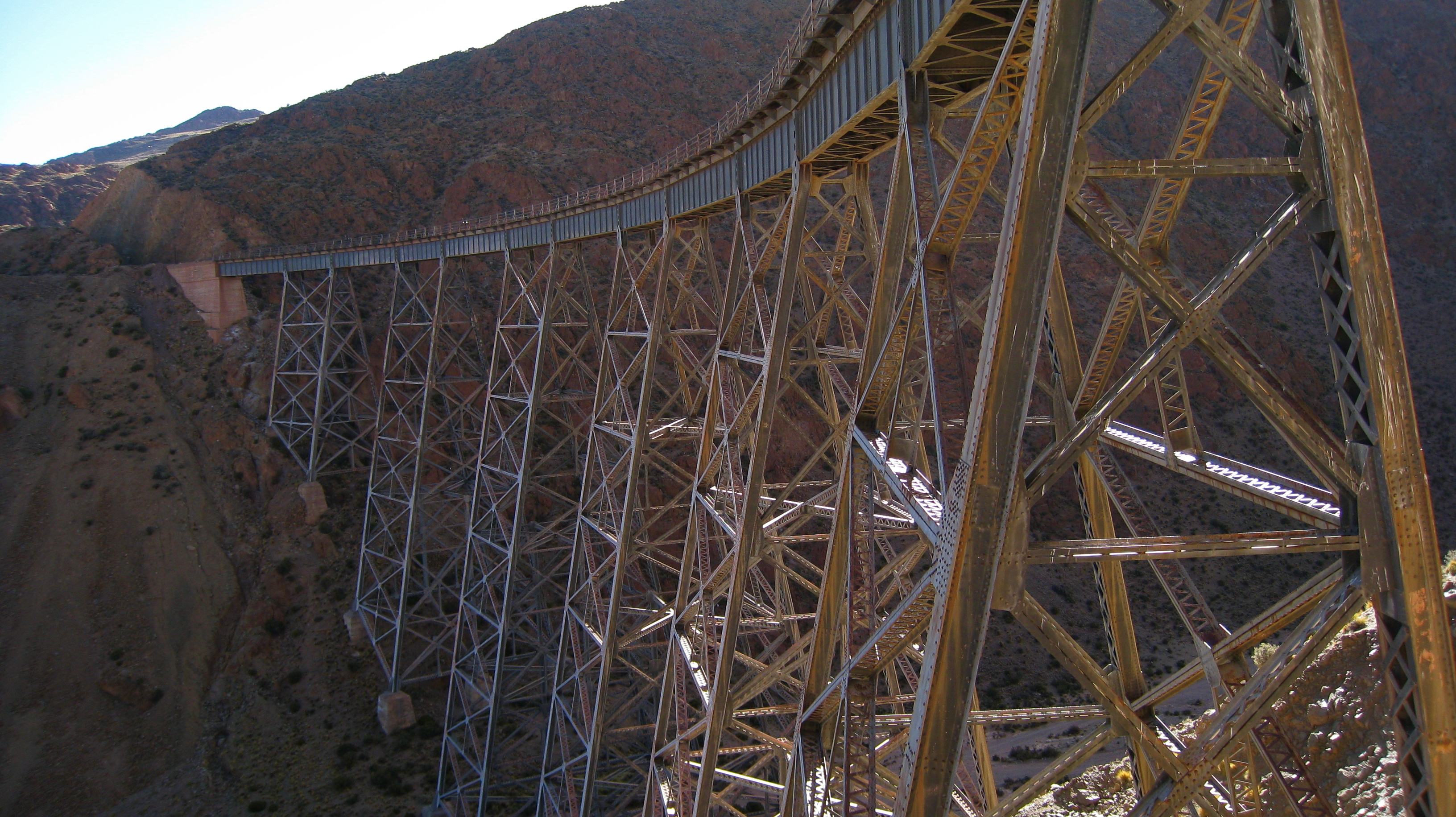 The viaduct La Polvorilla, Salta Province (Argentina).